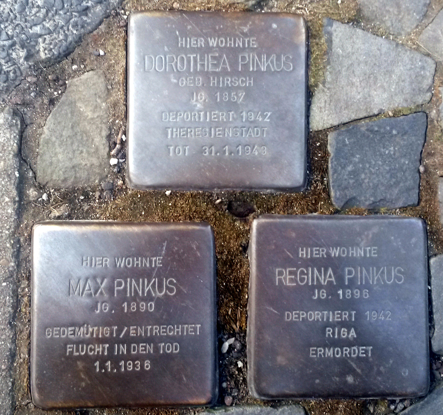 Stolpersteine in Dortmund, Adlerstraße 101